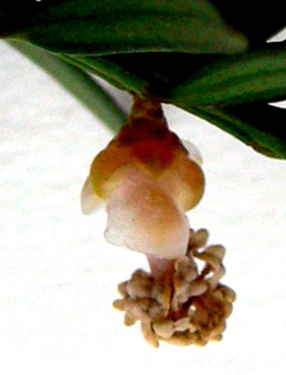 Taxus baccata